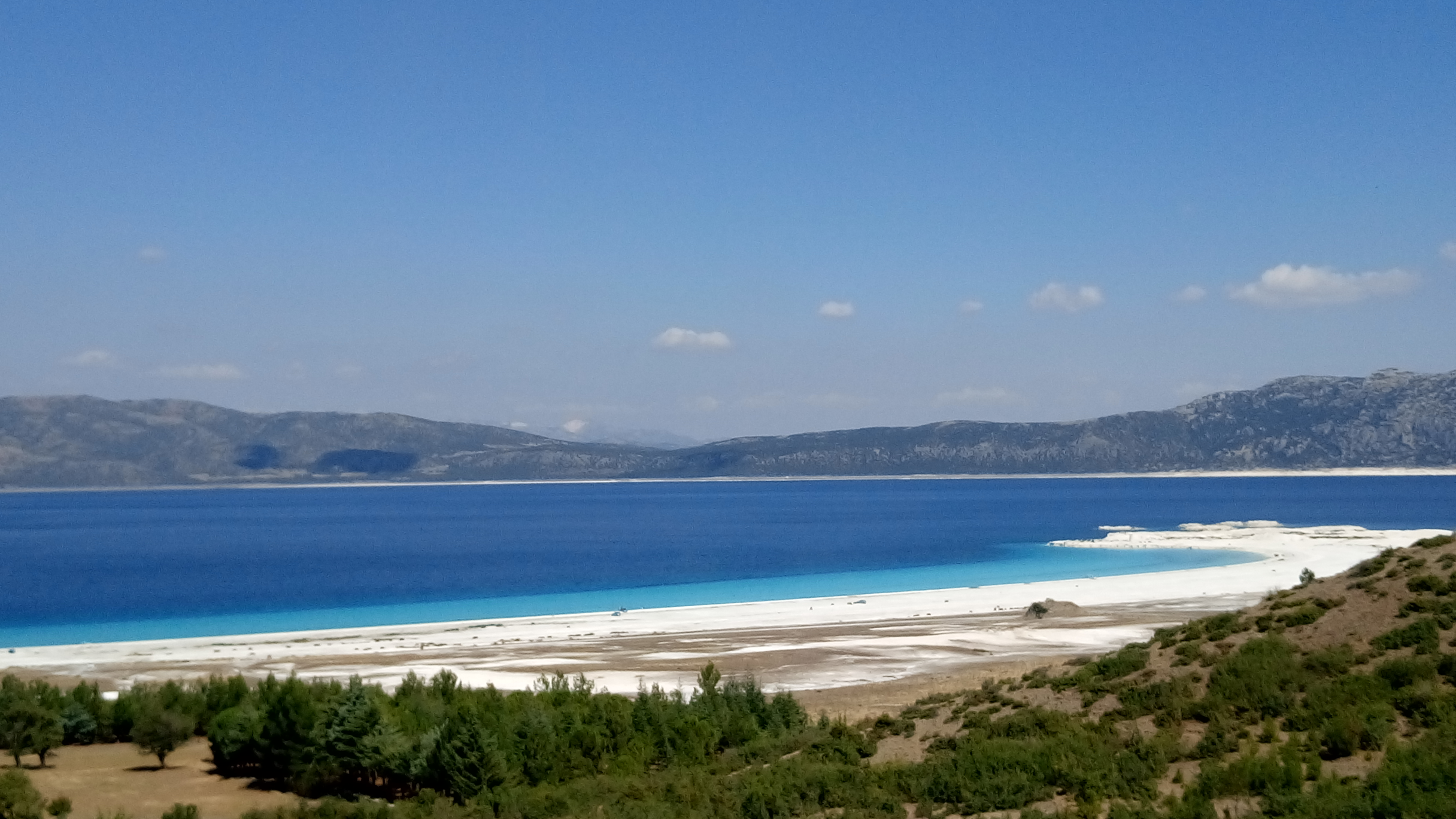 Panaromic Salda Lake